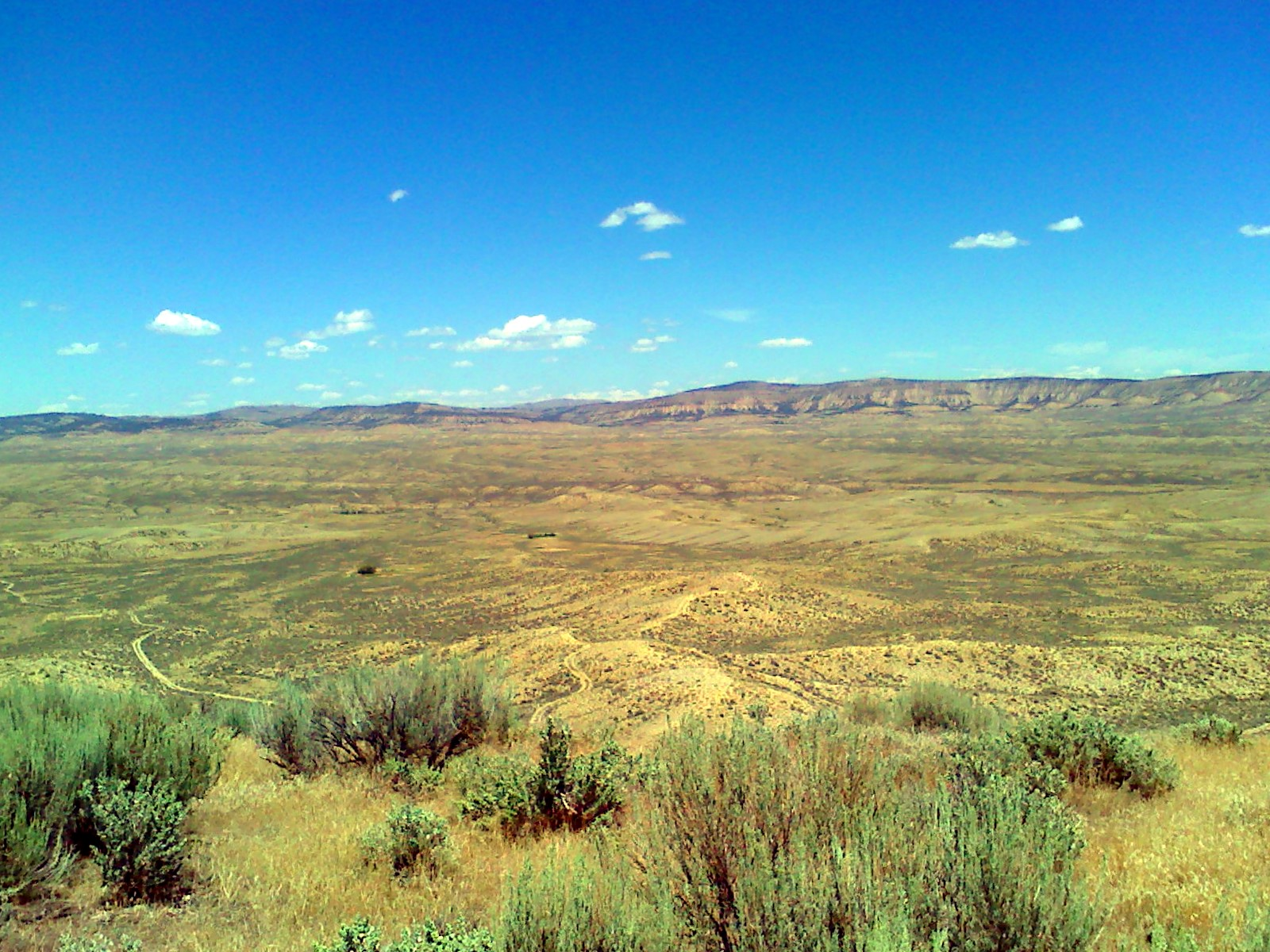 Taken from the top of one of the tallest hills at Wolf Creek, in Moffat County, Colorado.